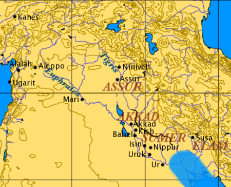 This map has been uploaded by Electionworld from to enable the Wikimedia Atlas of the World . Original uploader to was Dbachmann, known as Dbachmann at . Electionworld is not the creator of this map. Licensing information is below. based on Image:Orient 27 43 22 55 blank map.png. the approximate Bronze Age extent of the Persian Gulf is shown.